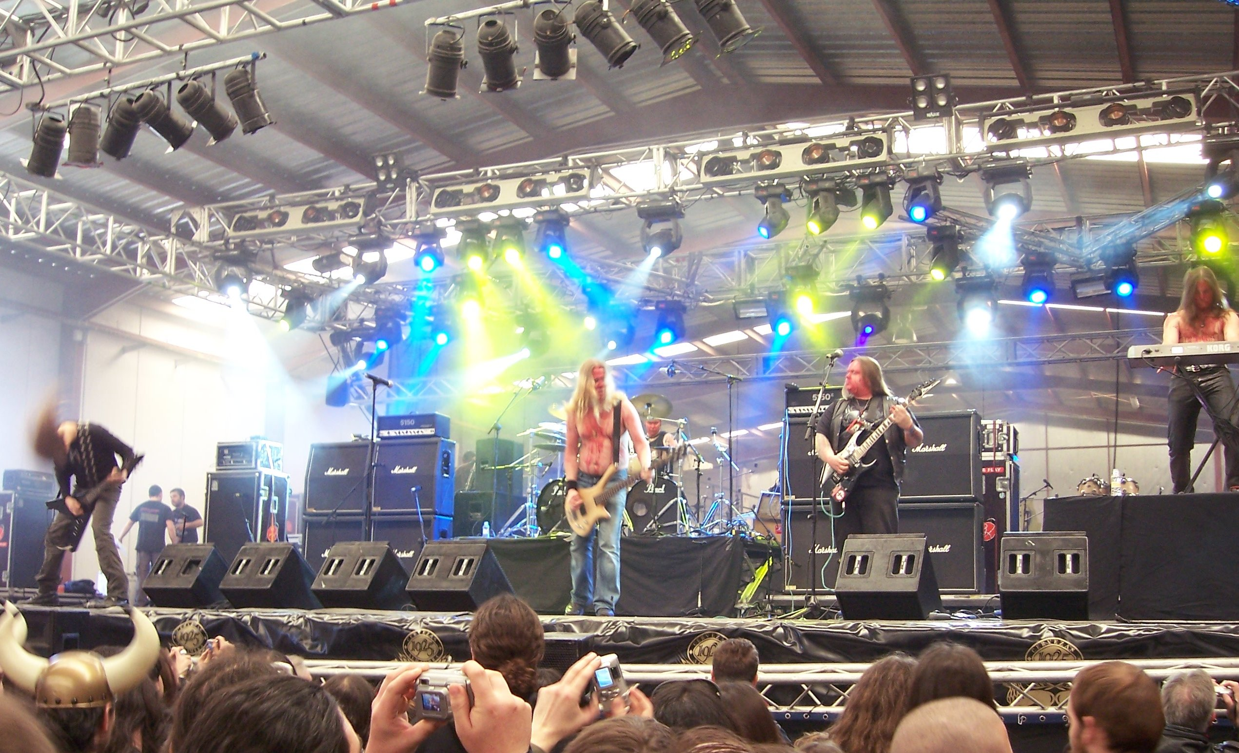 Moonsorrow in Atarfe Vega Rock Festival 2006